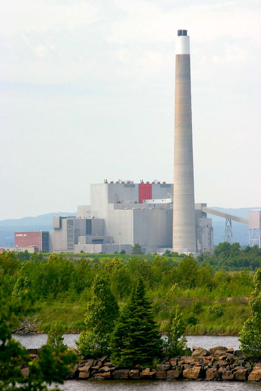 Photo of the coal power generating station in Thunder Bay ontario